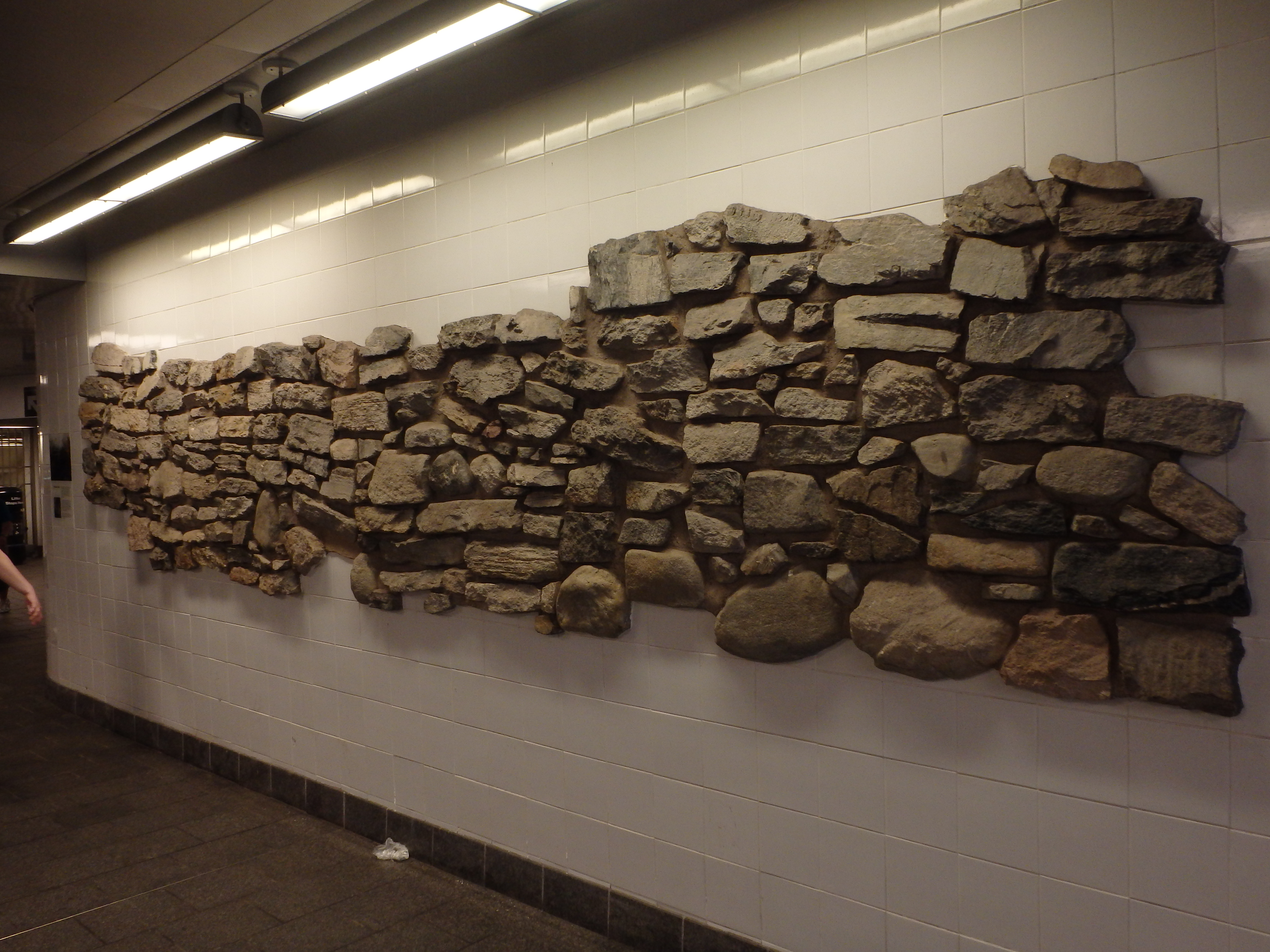 The southernmost stop on the 1 line.